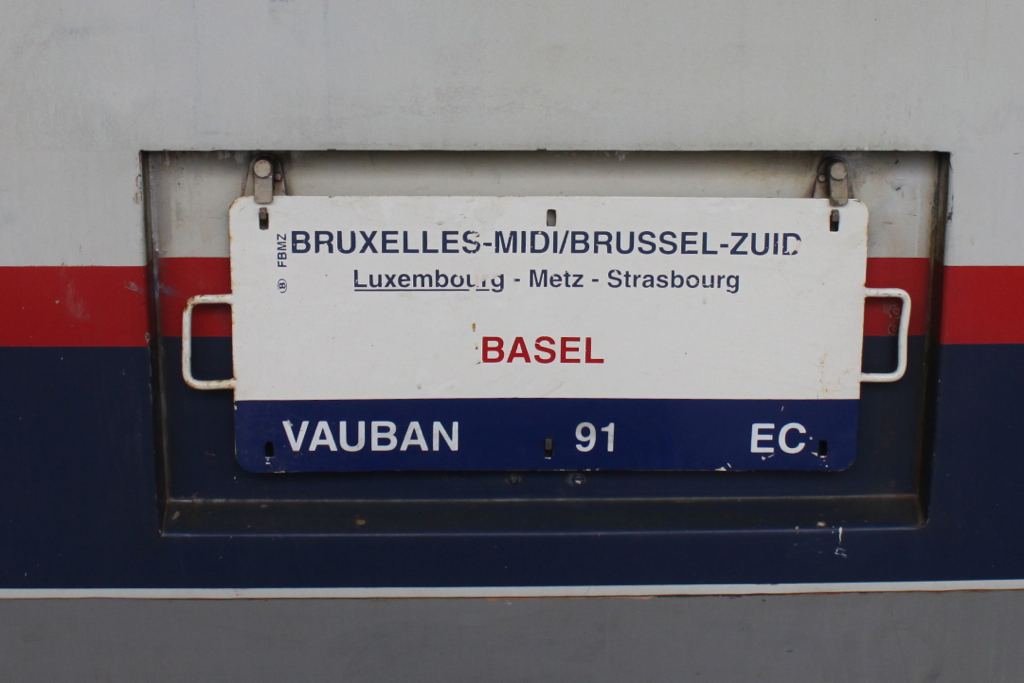 Information board on SNCB/NMBS Am 61 88 19-70 608-5 at Zürich HB.